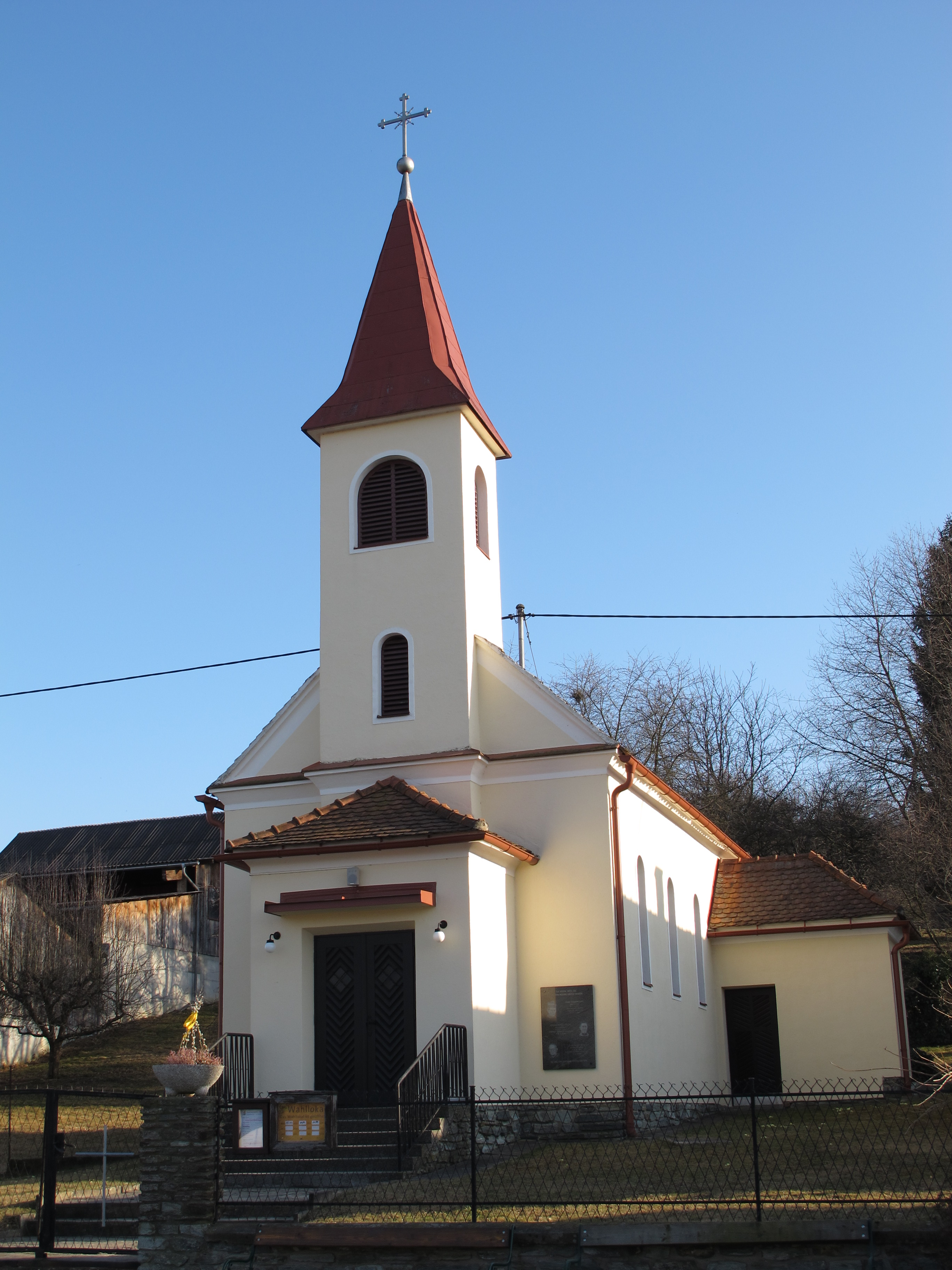 Kirche Sumetendorf